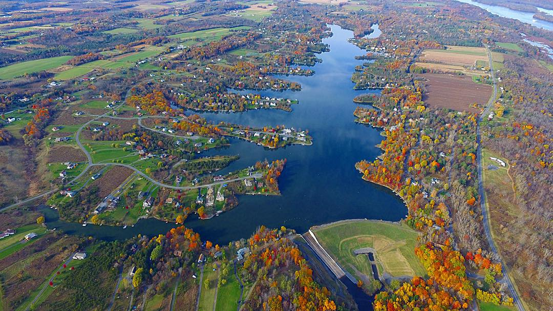 Sleepy Hollow Lake Drone image looking east and top half of lake